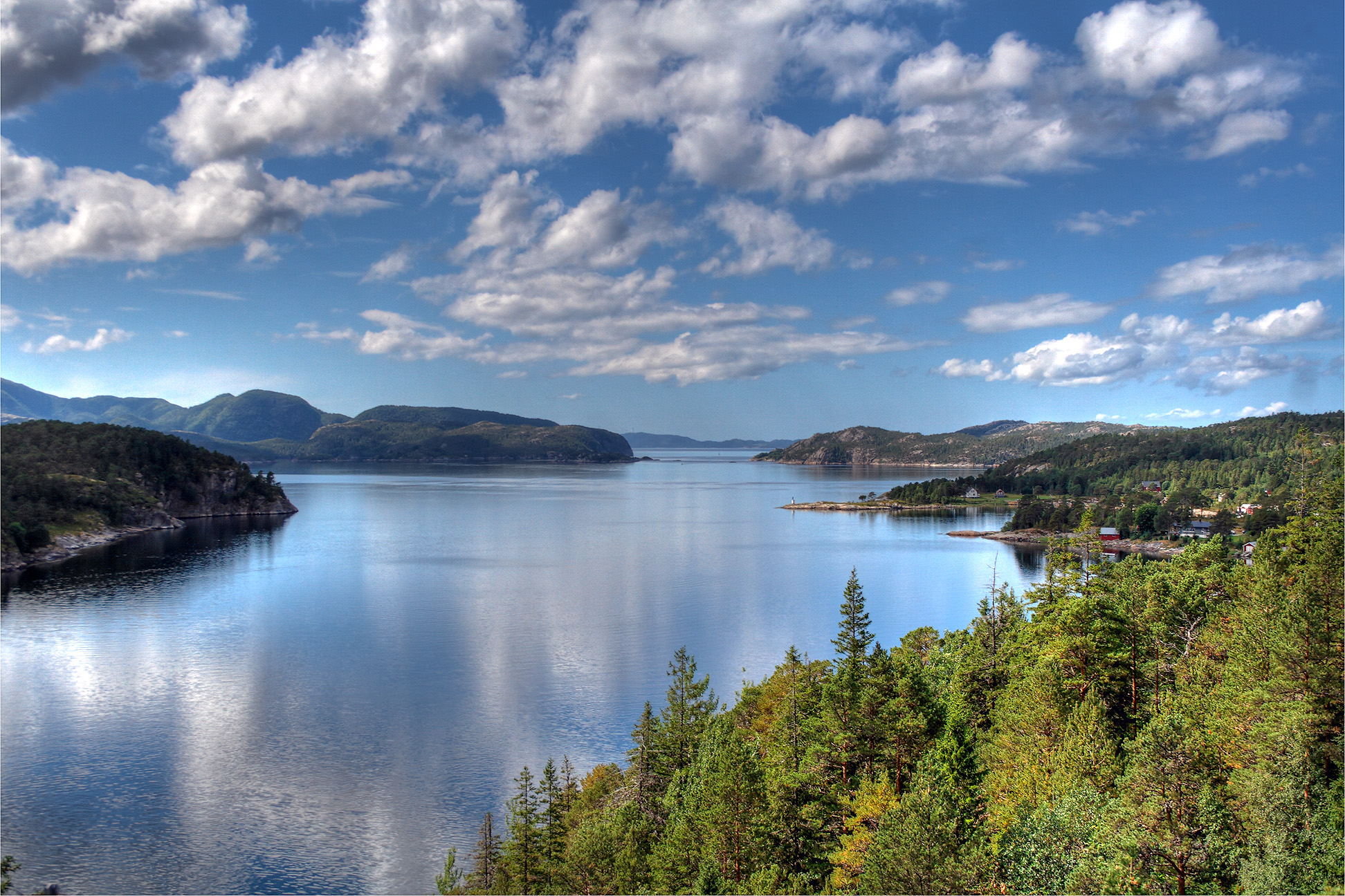 Oplofjord, Salsbruket, Norway. Location of camera: 64°47'59"N 11°50'24"E